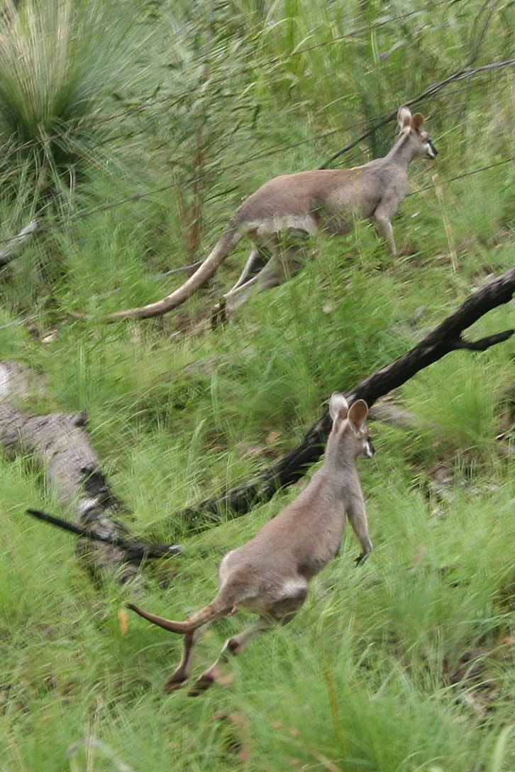 Whiptail Wallaby, Macropus parryi; wild